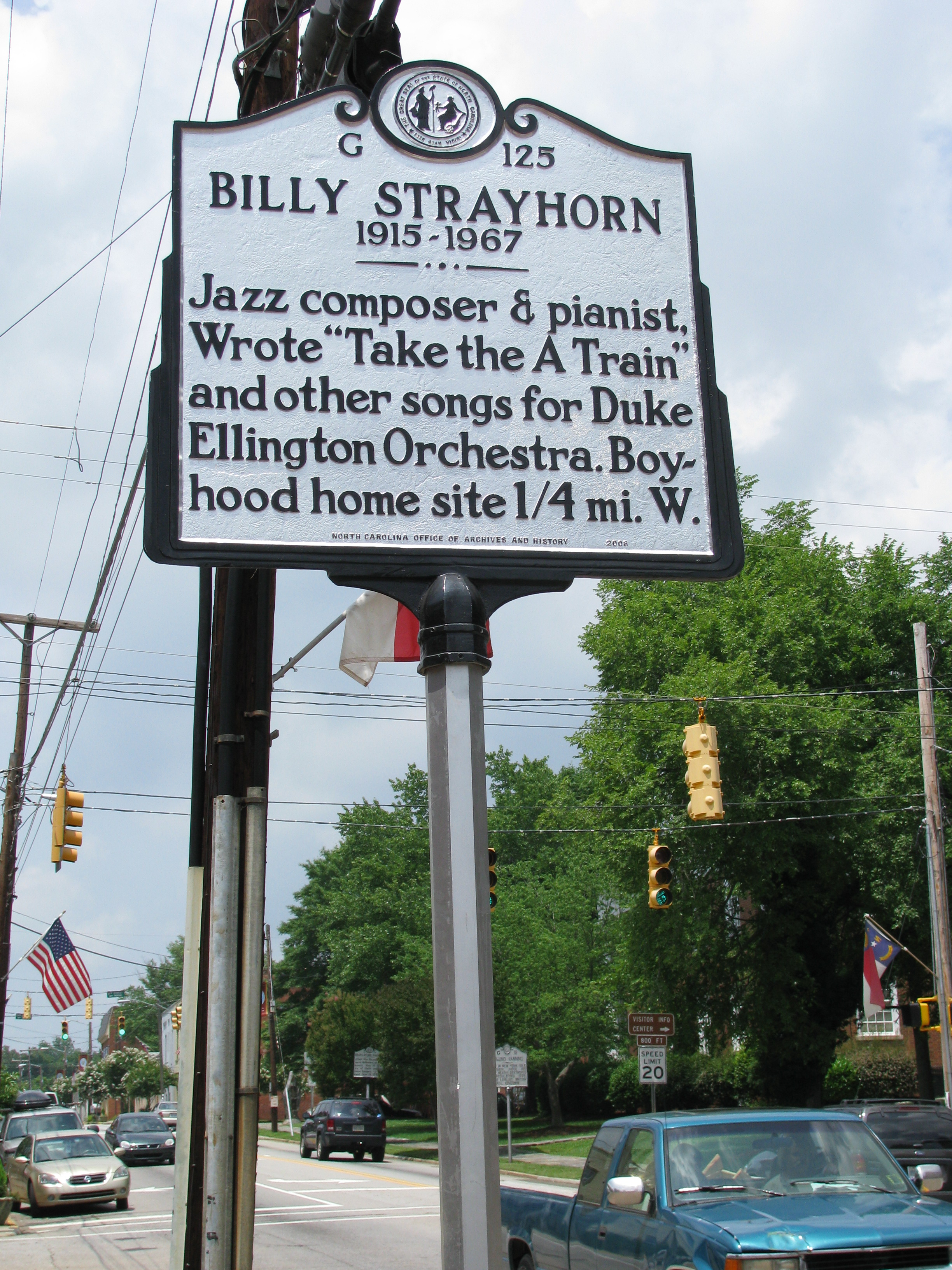 Jazz composer and pianist. Wrote "Take the A Train" and other songs for Duke Ellington Orchestra. Boyhood home site 1/4 mile west.